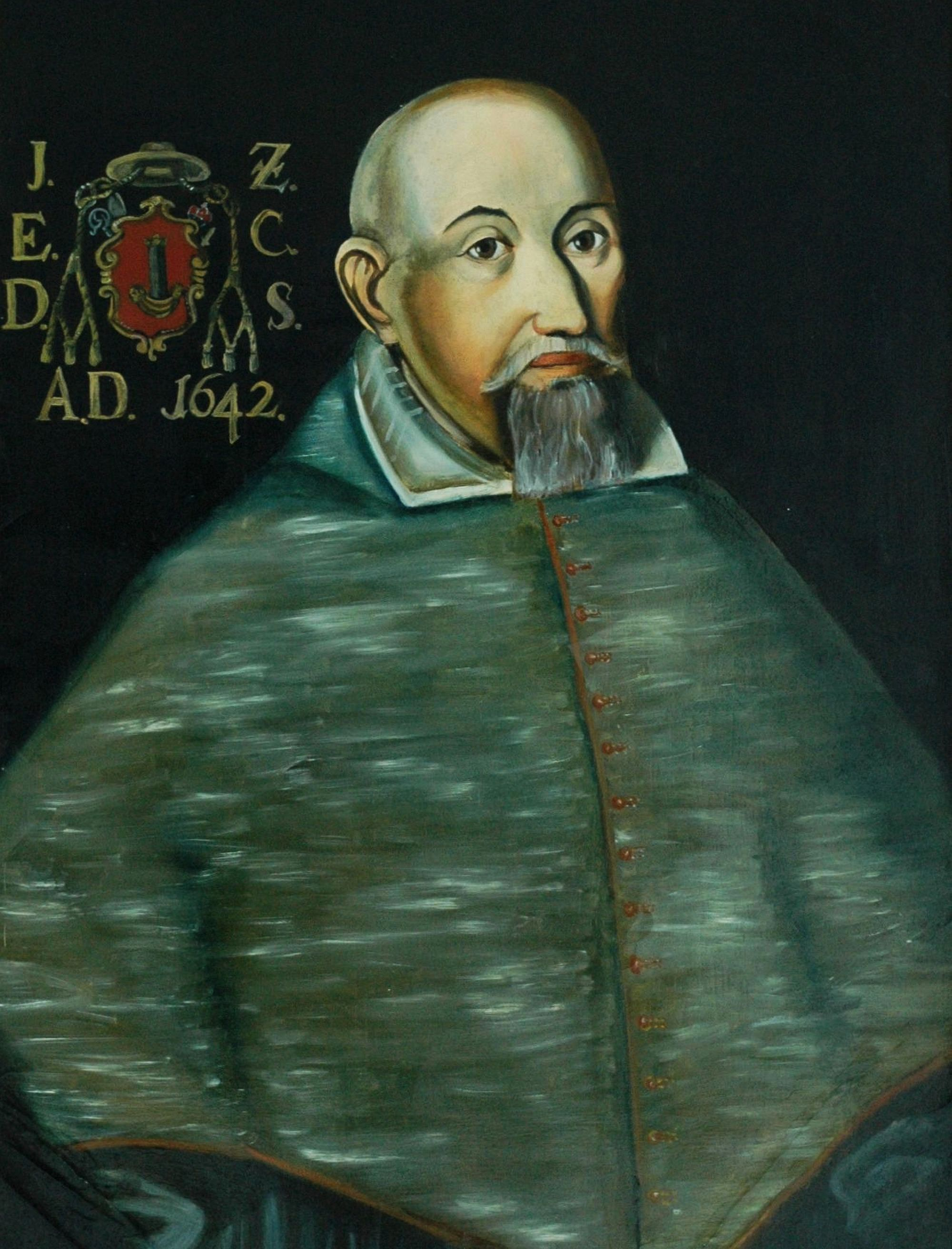 Jakub Zadzik (1582-1642), bishop of Kraków, Crown Deputy Chancellor. Portrait from the church in Raków